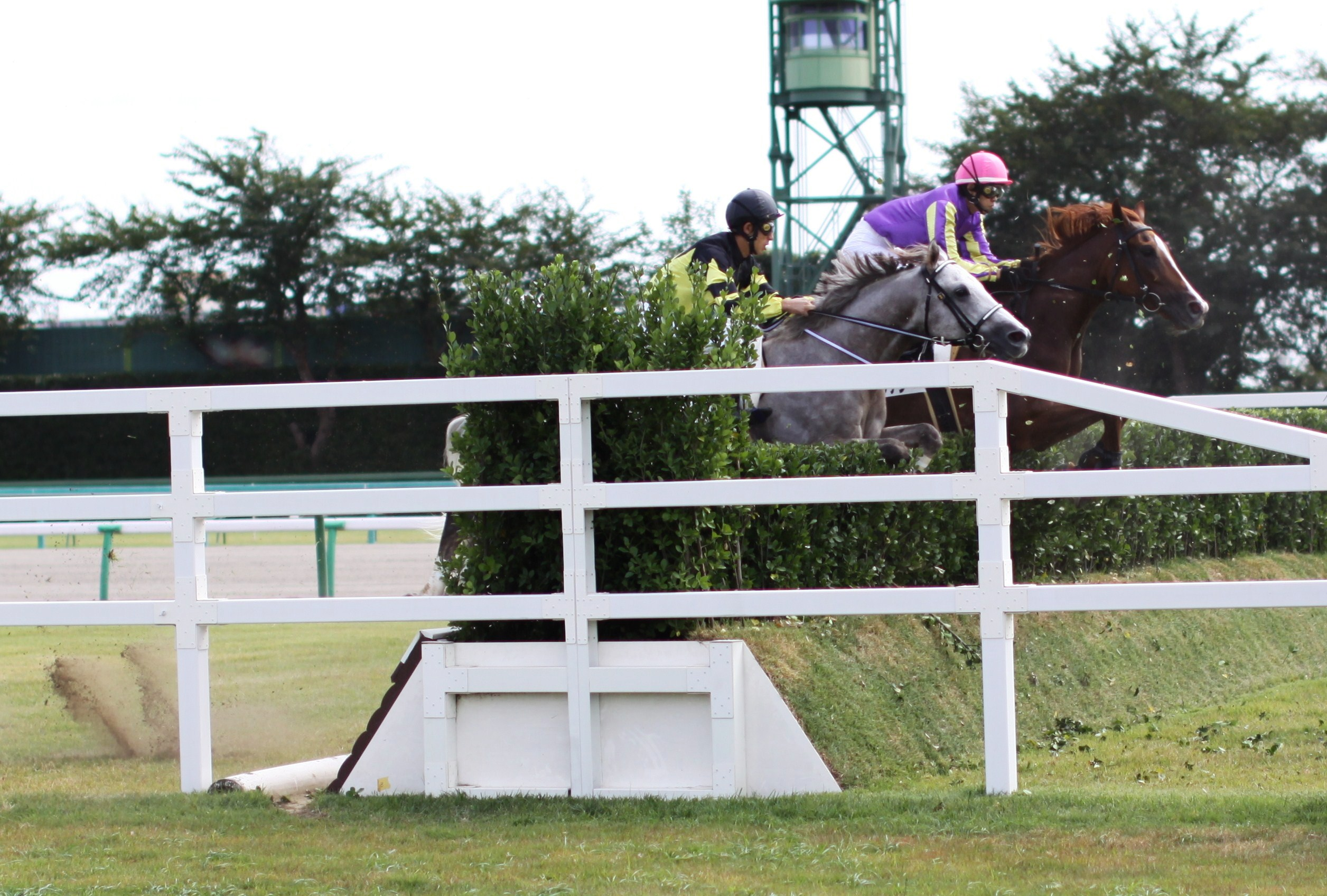 Steeplechase(Nakayama Racecourse)